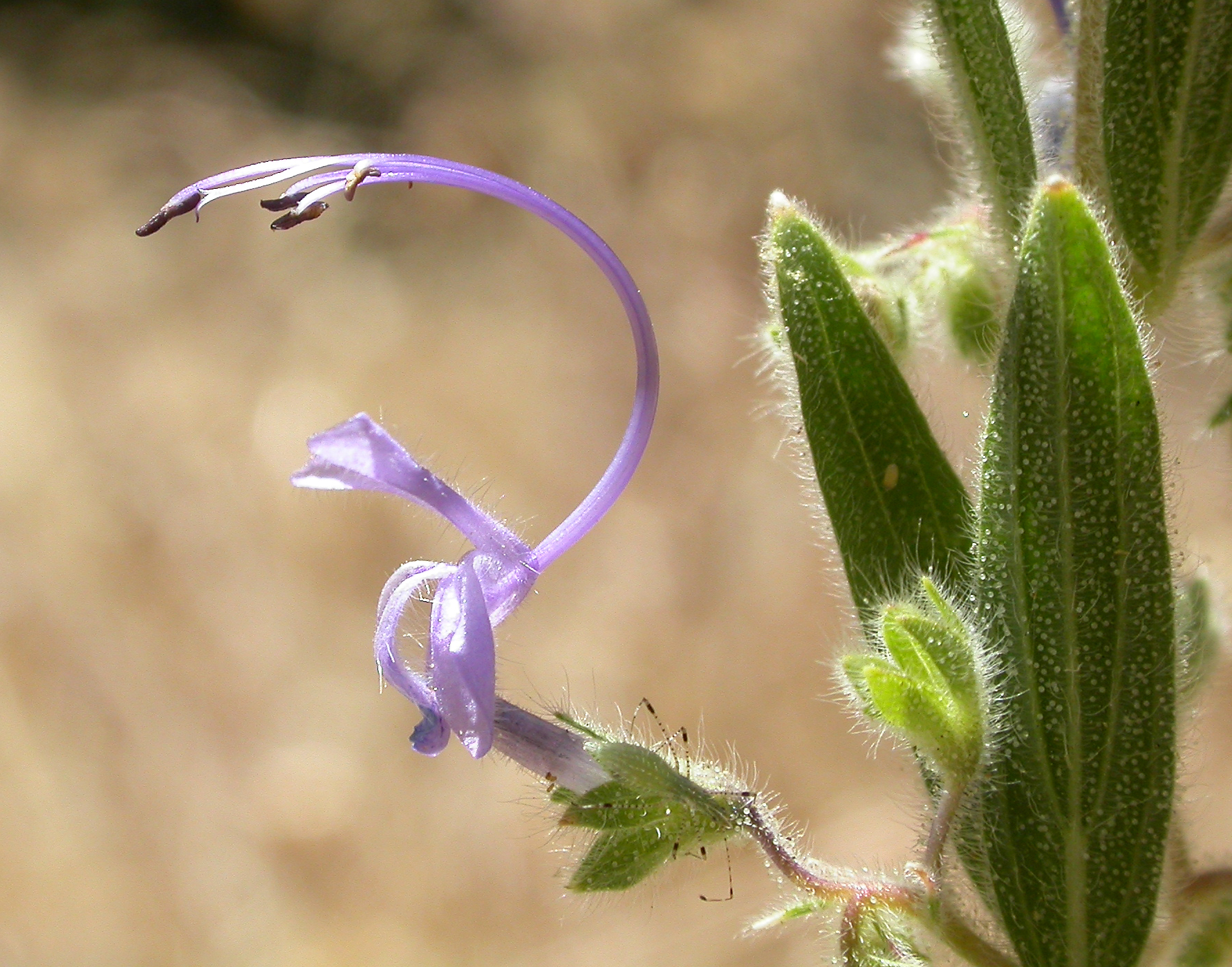 Vinegar weed Credit: NPS Trichostema lanceolatum Mint family (Lamiaceae)